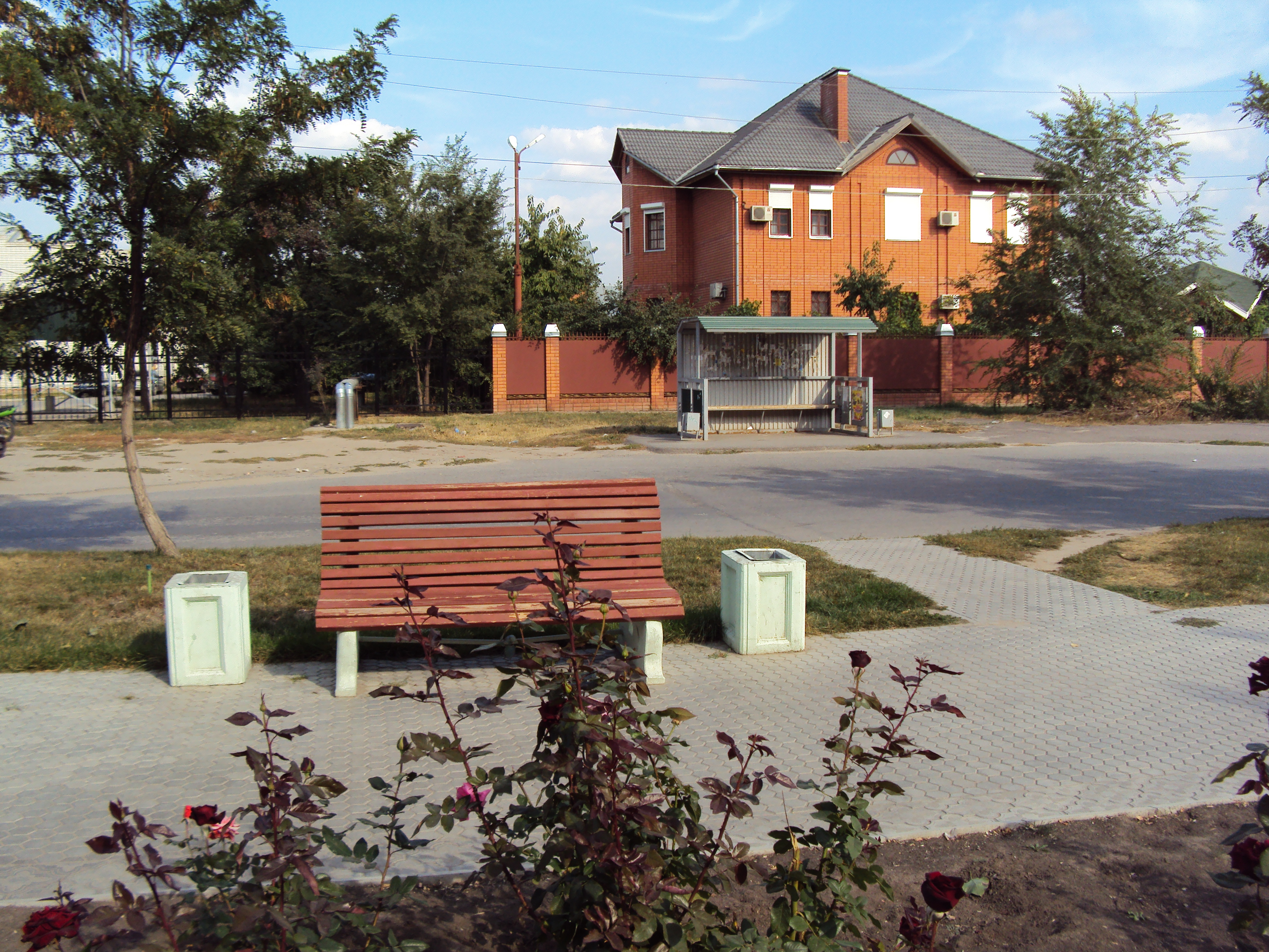 Private houses and cottages are standing among others on the central street of the Mikhaylovka.